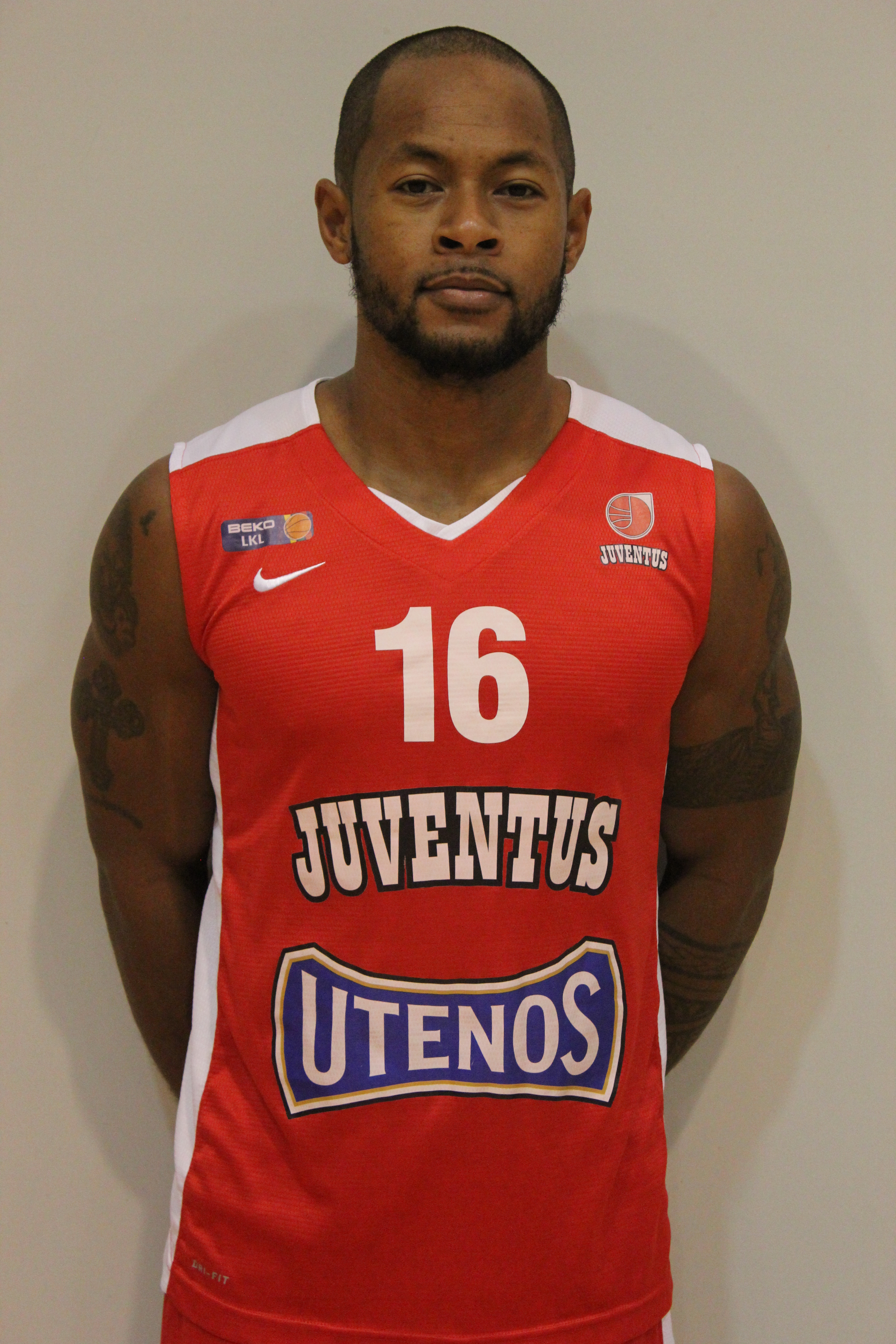 Photo of BC Juventus player Rashaun Broadus during the 2014-15 season.